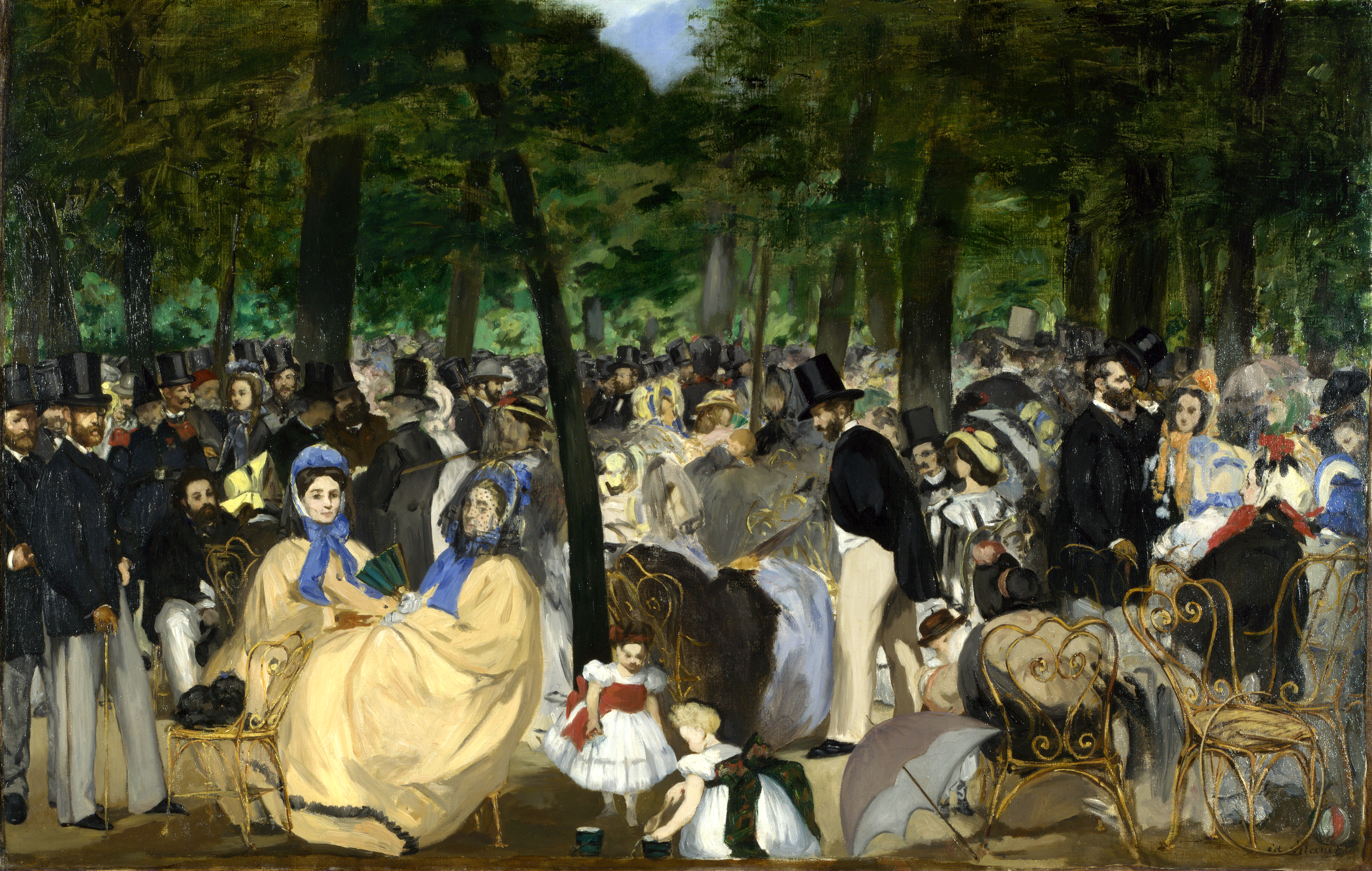 This painting of the Tuileries Gardens in Paris was Manet's first major work depicting modern city life. The band is playing and a fashionable crowd has gathered to listen. The picture includes portraits of Manet's friends and family. These include Manet himself as well as: Baudelaire - poet (1821 - 1867); Théophile Gautier - poet and novelist (1811 - 1872); Ignace Fantin-Latour - flower-painter (1836 - 1904); Jacques Offenbach (1819 - 1880) - composer; Eugène - the artist's brother (1833 - 1892).